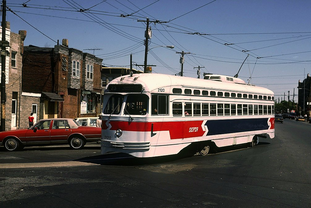 SEPTA 2120 Oregon and 11th May 1985xRP